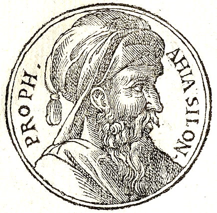 Ahias-silonites was a prophet of Shiloh (1 Kings 11:29; 14:2) in the days of Rehoboam.